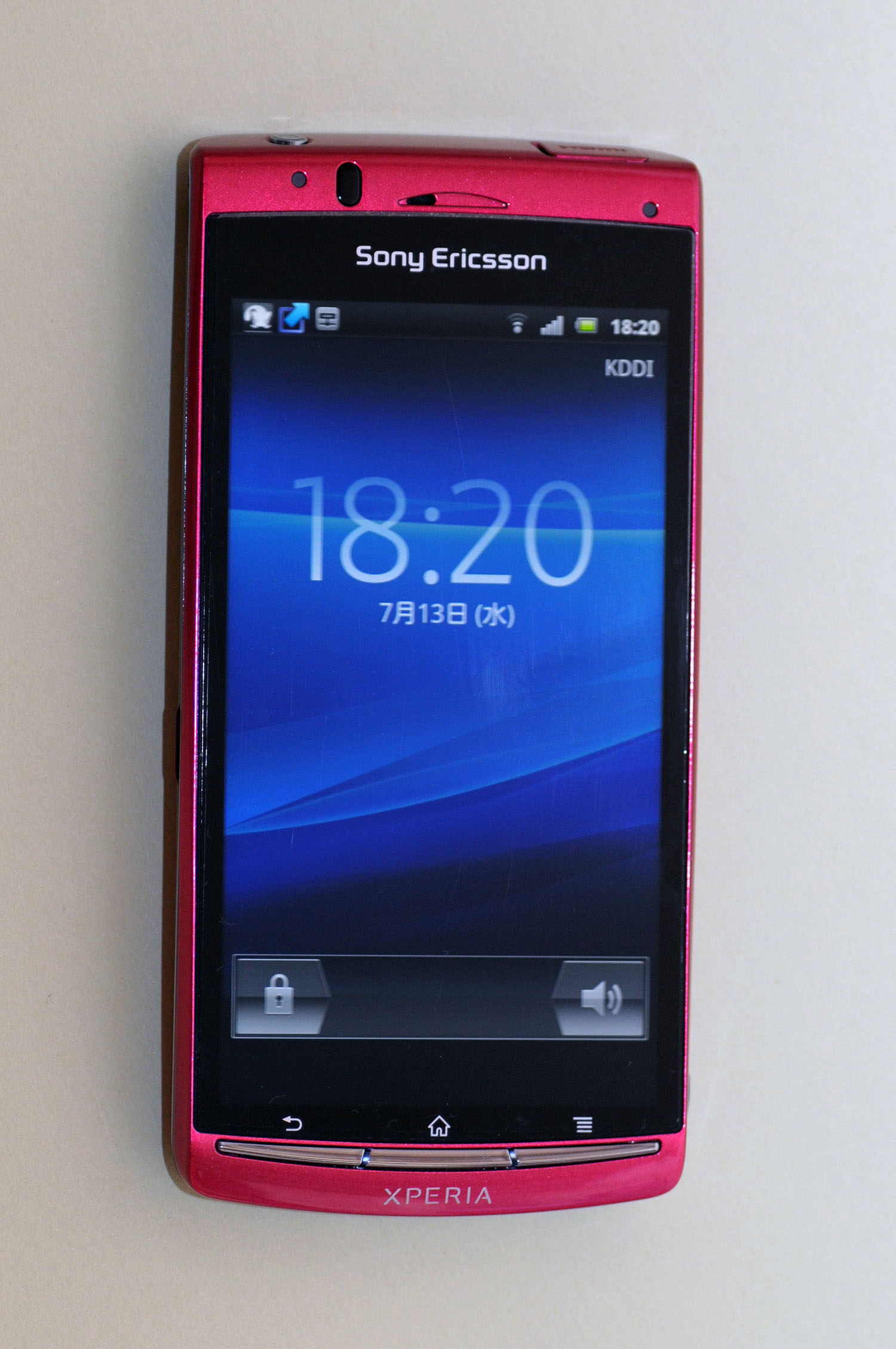 AU Xperia acro IS11S Front